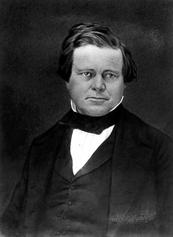 James M. Goodhue, founder of the St. Paul Pioneer Press